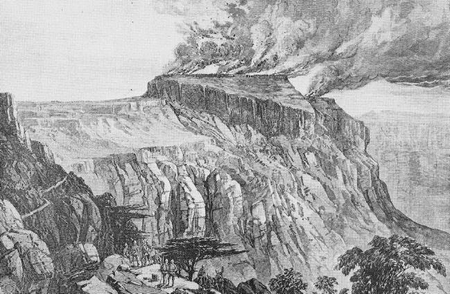 The fortress of Magdala burning after the British expeditionary force defeated Tewodros of Ethiopia